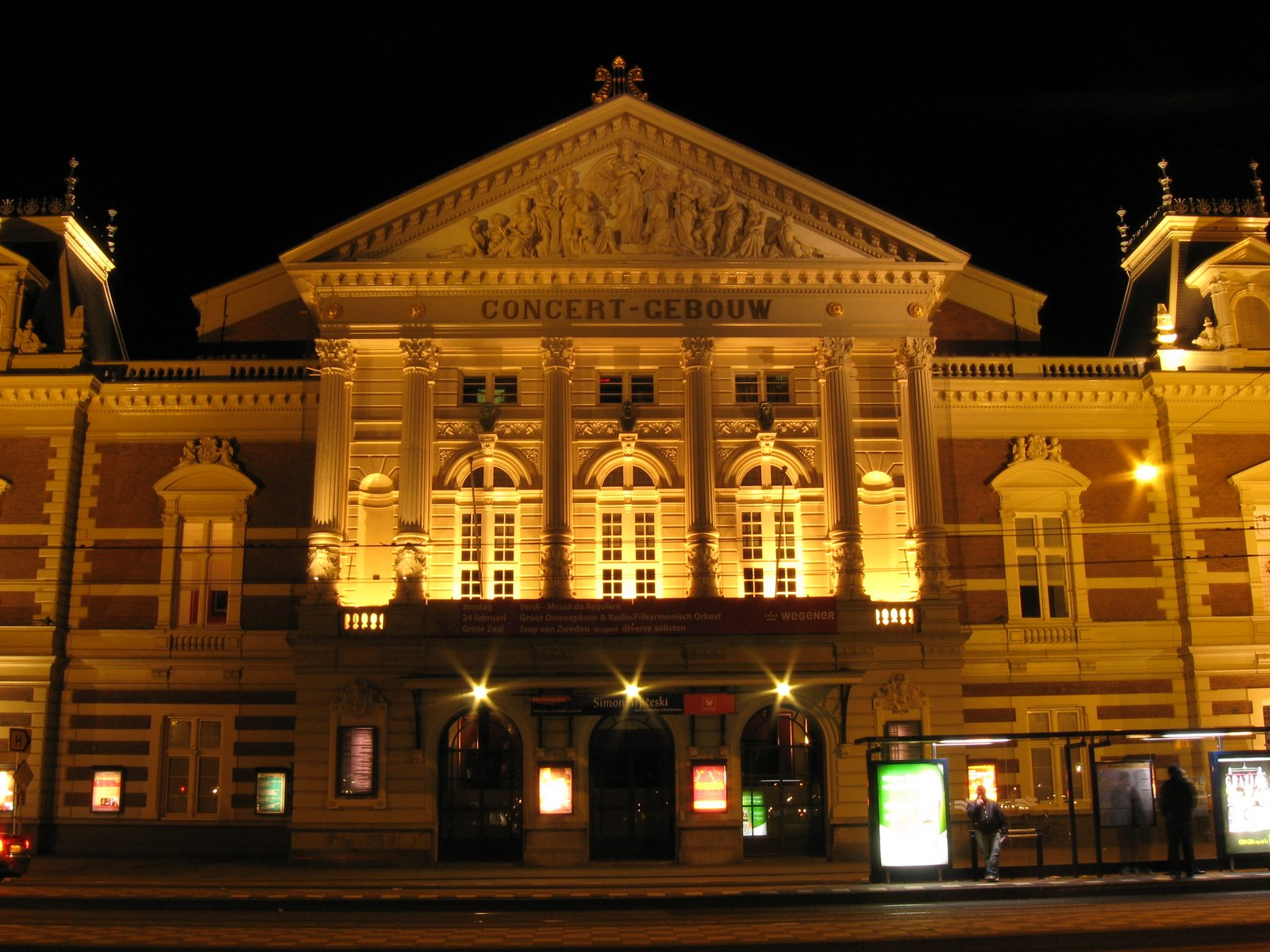 Concertgebouw (Amsterdam) building at night, as seen from across the road.